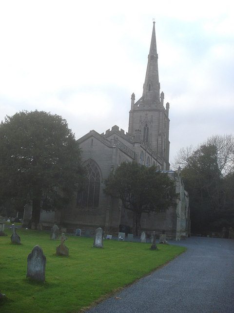 St Andrew's church. Looking west from the entrance. The church was built in 1829 and has an impressive 160-foot spire. It was erected by Rickman for the Marchioness of Downshire near the site of the former church, which was pulled down with the exception of the eastern portion of the chancel, which now serves as a mortuary chapel to the family of Lord Sandys - see 1139026.